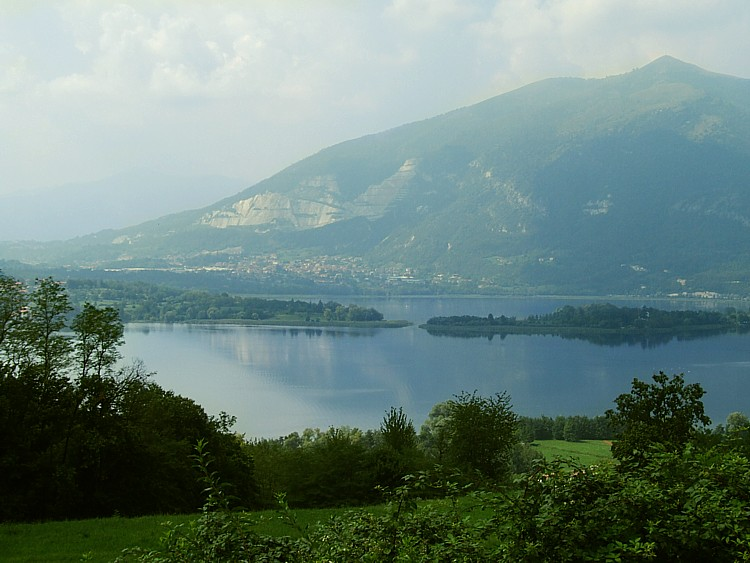 Lago di Annone seen from Galbiate Picture taken by user Idéfix , august 23, 2006